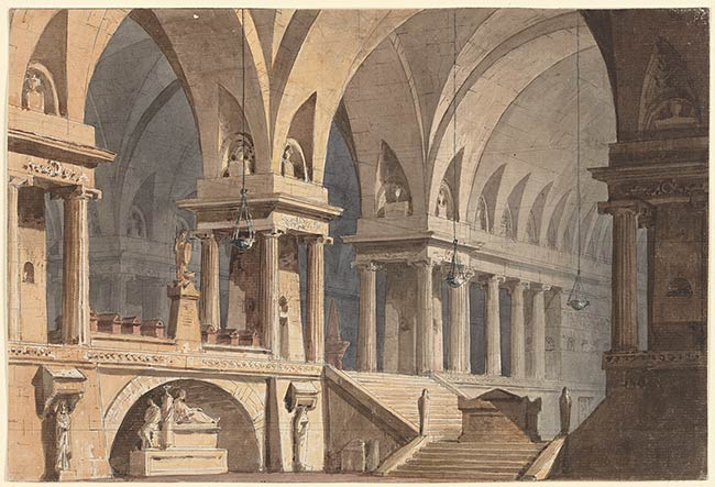 A Vast Necropolis. Verso: An Arcade of Caryatids Floating Among Clouds